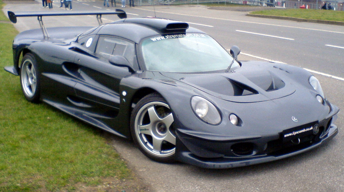 Lotus Elise GT1 at the Lotus Brands Hatch Celebration 2007